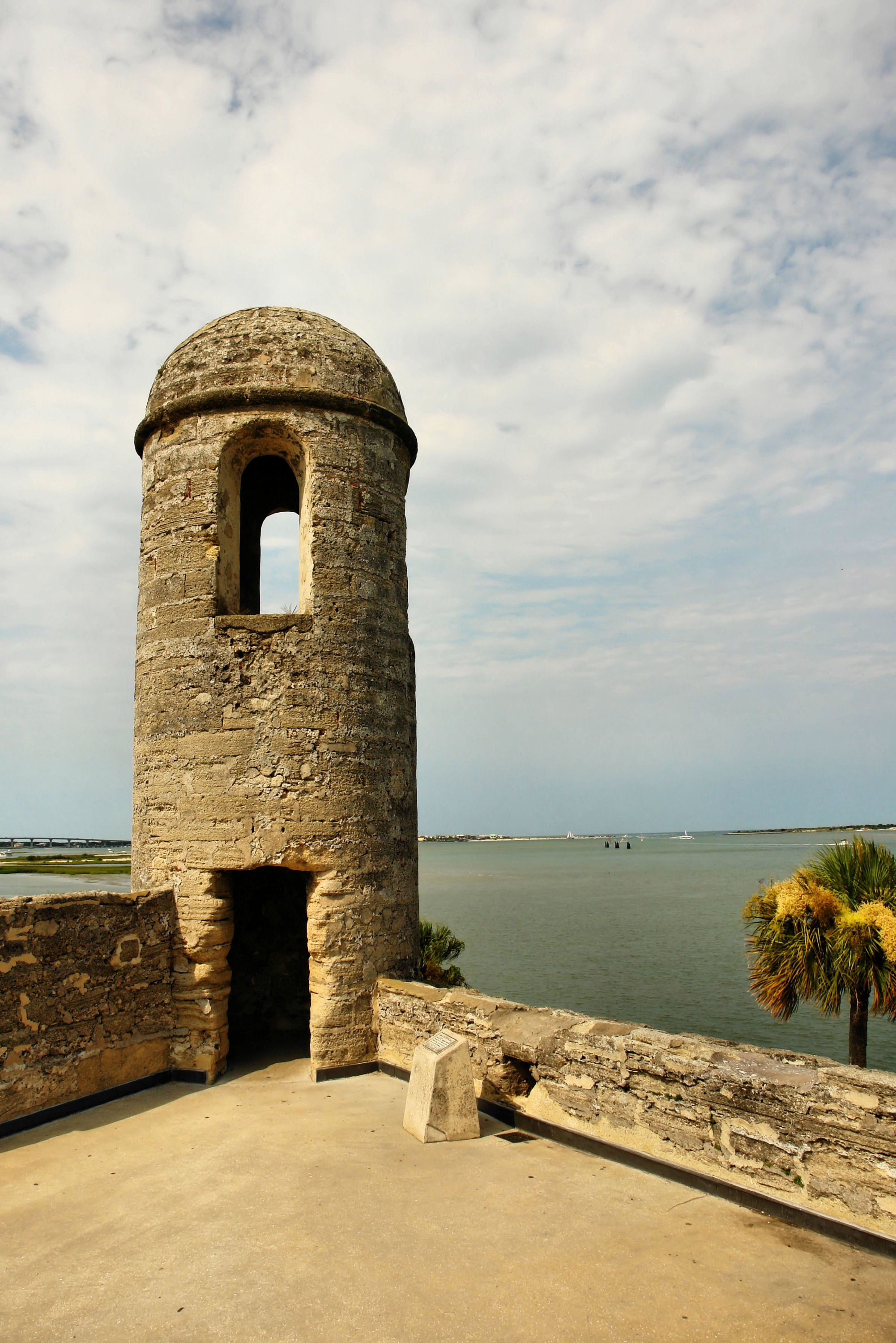 Belltower of the Castillo de San Marcos [1] in St. Augustine, Florida, USA